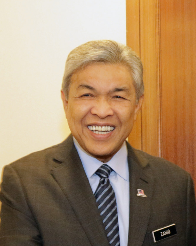 U.S. Secretary of State Rex Tillerson shakes hands with Malaysian Deputy Prime Minister Zahid Hamidi after signing a guest book at the Parliament building in Kuala Lumpur, Malaysia on August 9, 2017. [State Department photo/ Public Domain]